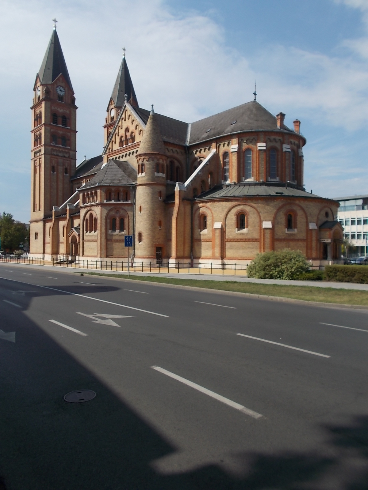 Roman Catholic church from Bocskai Street corner. - Kossuth Square, Nyíregyháza, Szabolcs-Szatmár-Bereg County, Hungary.